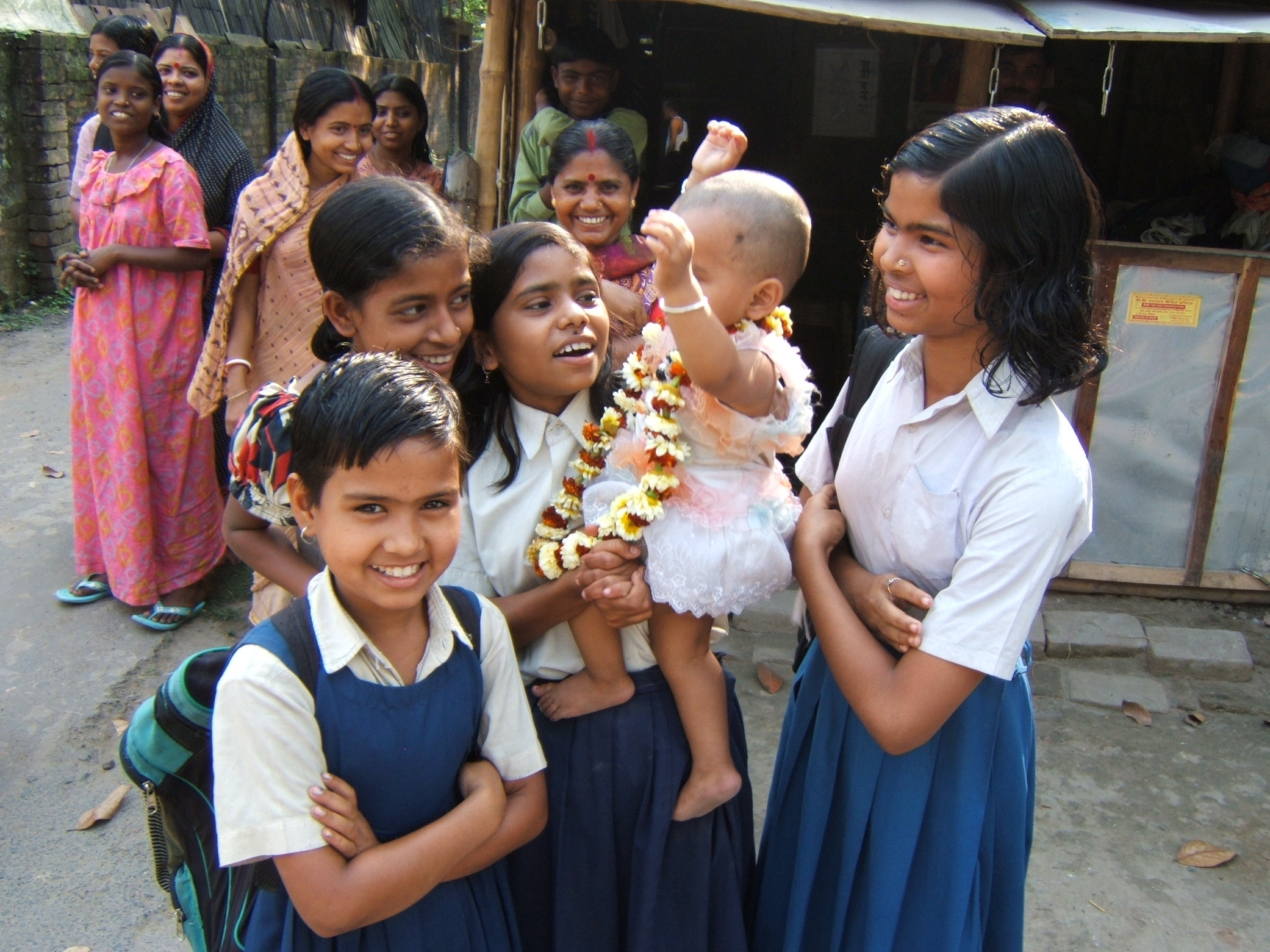 Village women in West Bengal, India